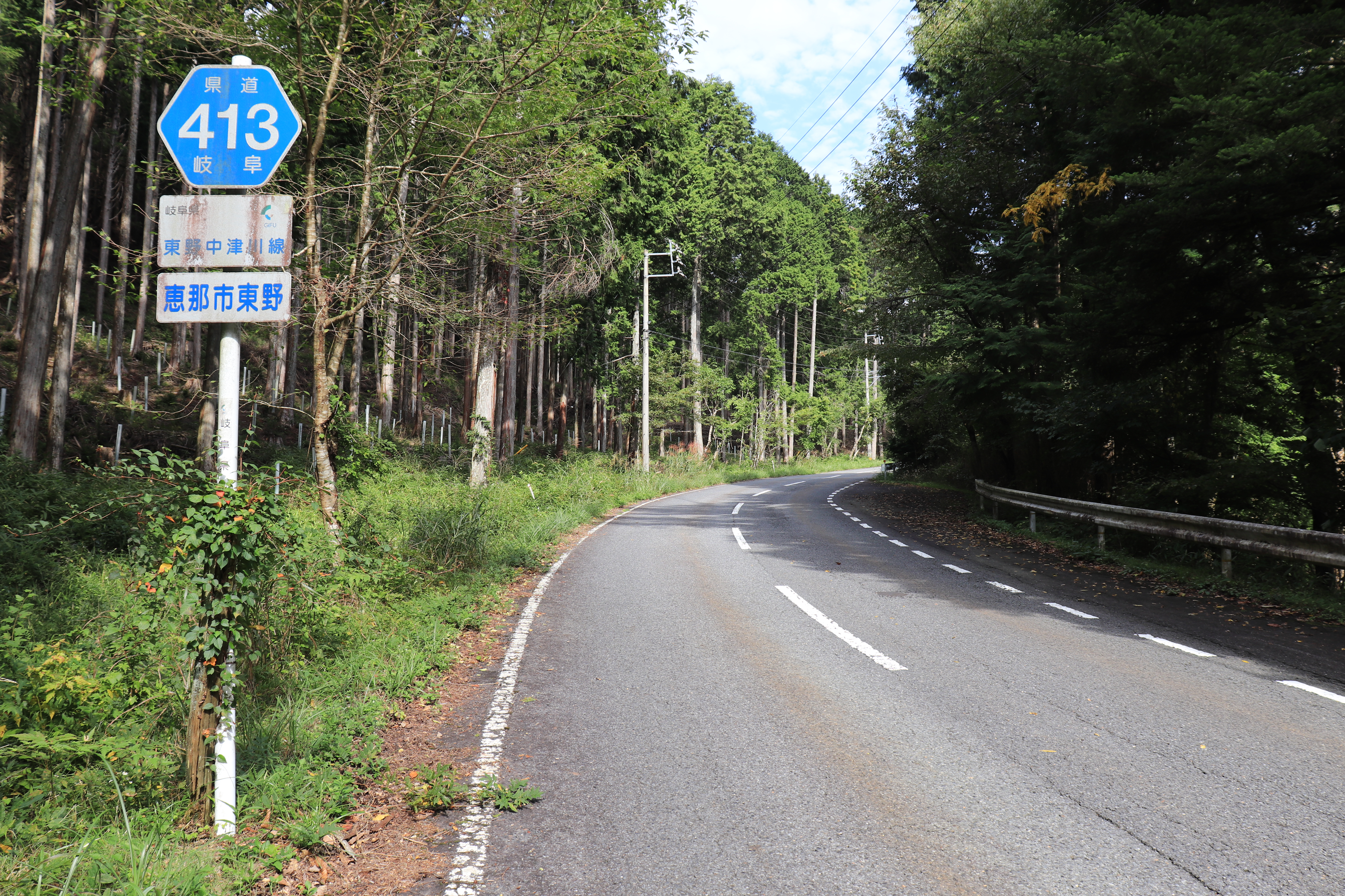 Gifu Prefectural Road Route 413 (Higashino-Nakatsugawa Line) in Higashino, Ena, Gifu Prefecture, Japan.